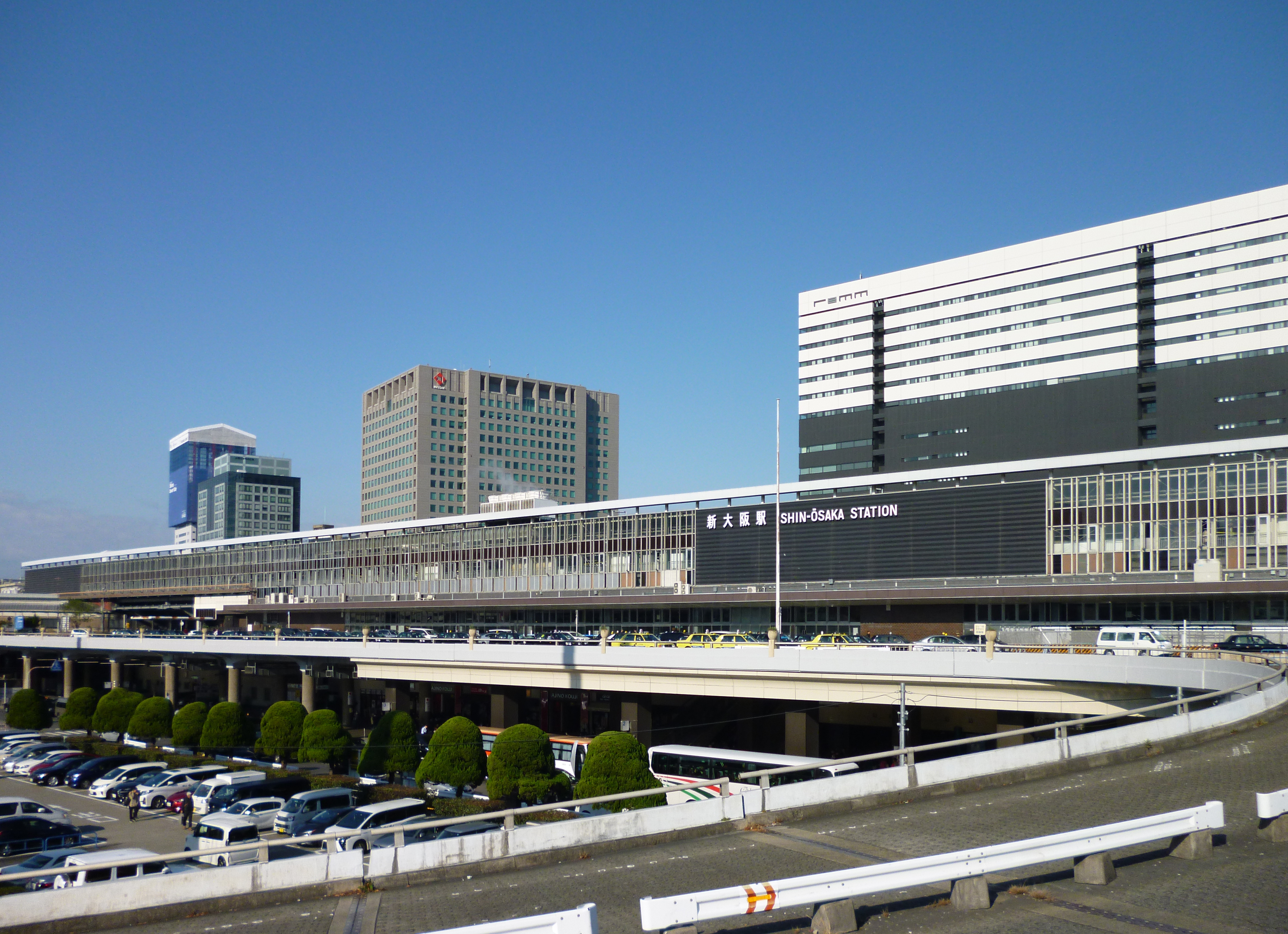 The south side of Shin-Ōsaka Station in Yodogawa-ku, Osaka, Osaka Prefecture, Japan.